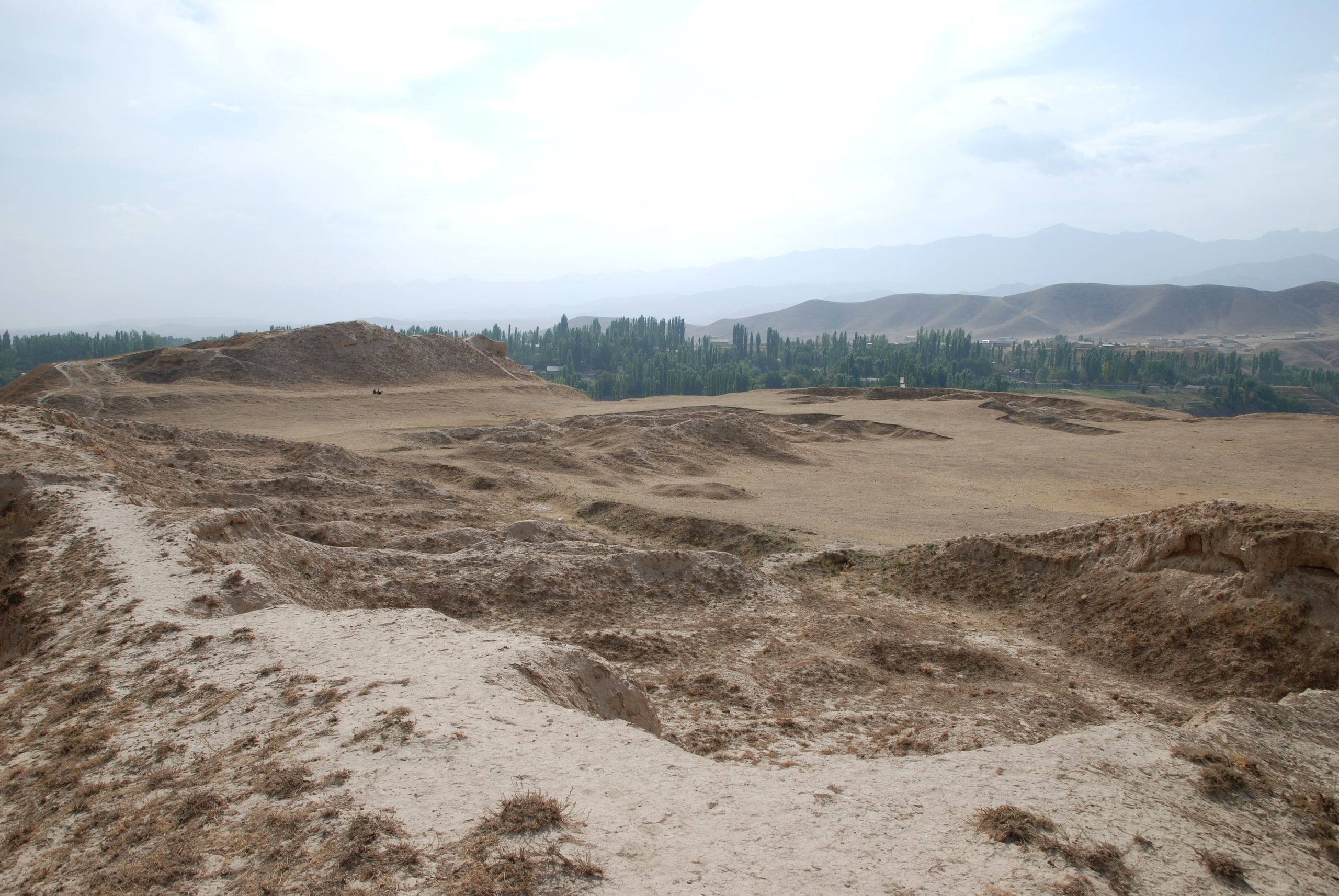 Bunjikat, Kala-i Kahkaha 1, towards east